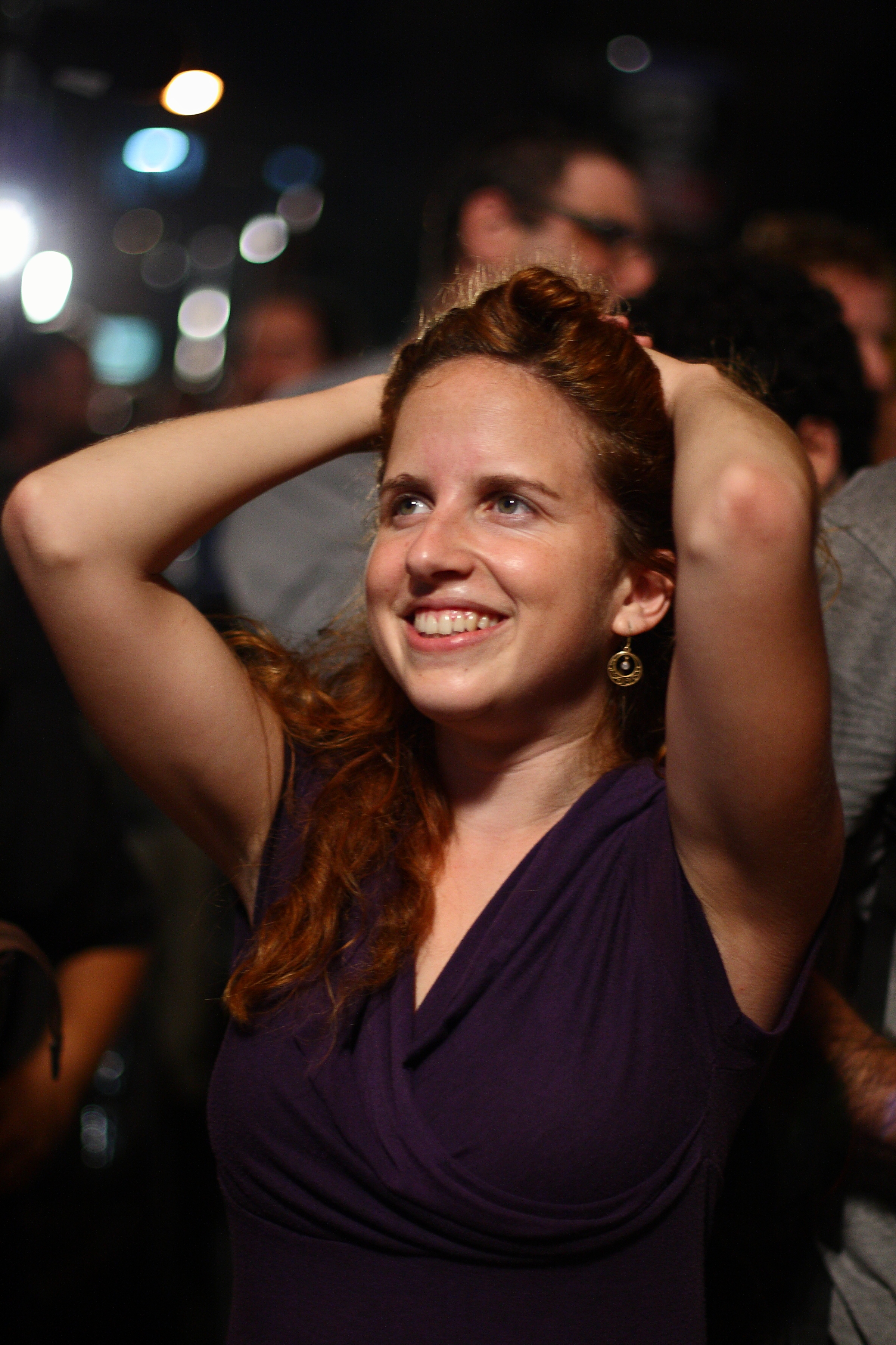 Photo of Stav Shaffir.